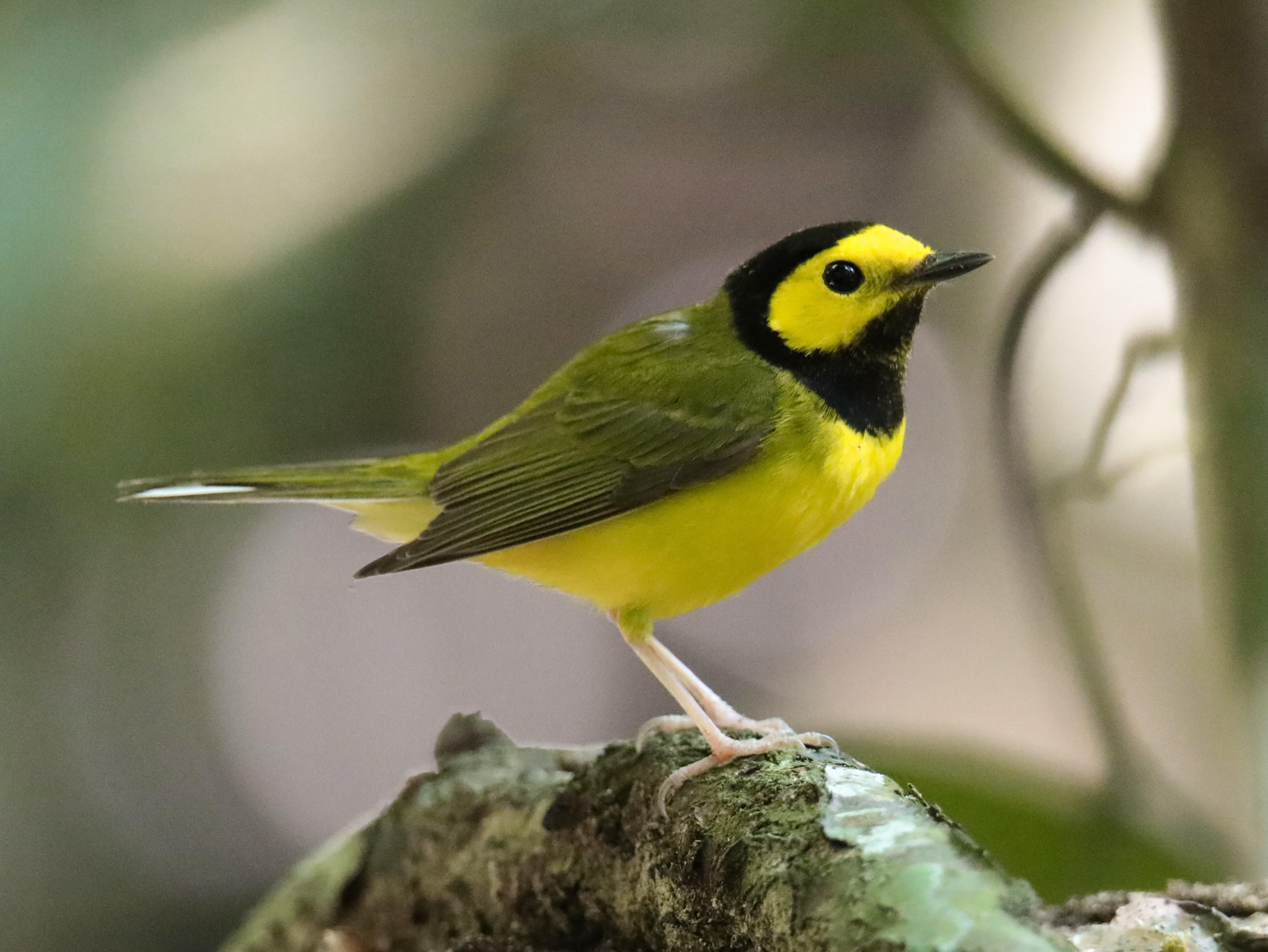 Photographed in the Yucatan peninsula of Mexico. The Hooded Warbler breeds in North America and across the eastern United States and into southernmost Canada (Ontario). It is migratory, wintering in Central America and the West Indies.